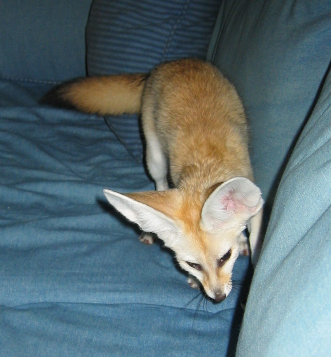 Fennec Fox name: Meisha Owner: Jim Christiaens Location: Surrey, B.C., Canada Taken July, 2003, during a friend's visit for a photo shoot. She was in the process of running off the couch, hence the odd perspective.